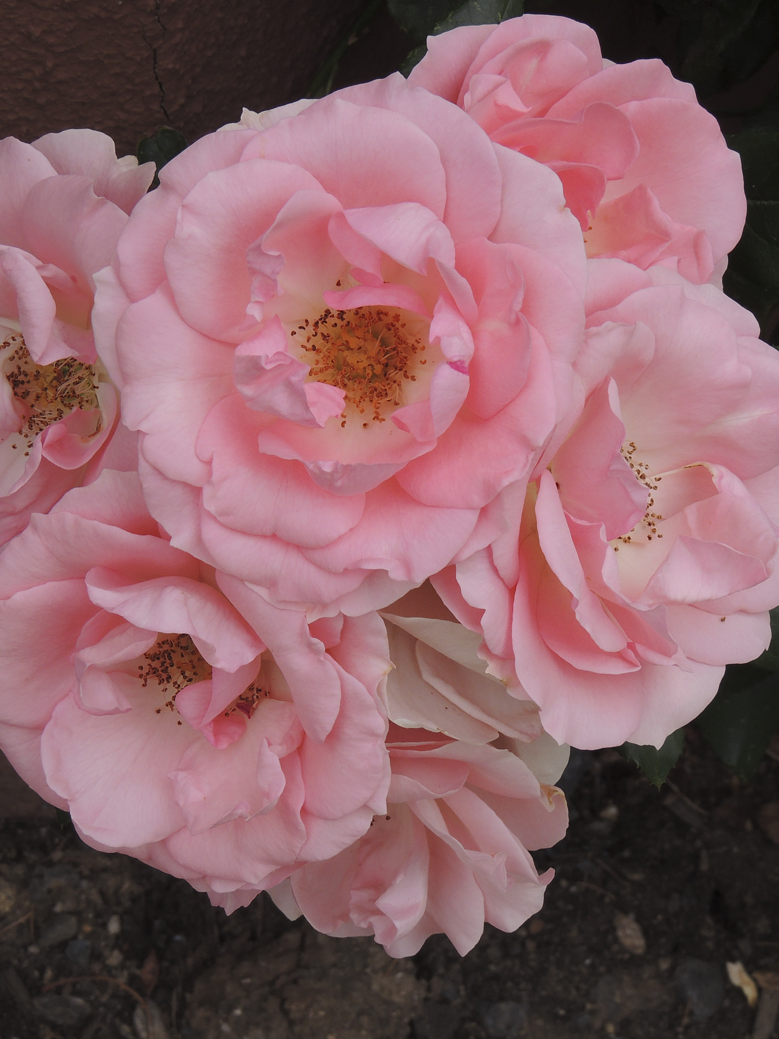 Rose 'Rose Professor Sieber', Floribunda by Kordes 1997; Photographed in Nieuwesteeg Heritage Rose Garden, Maddingley Park, Bacchus Marsh, Victoria